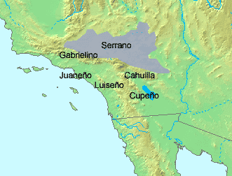 Serrano language